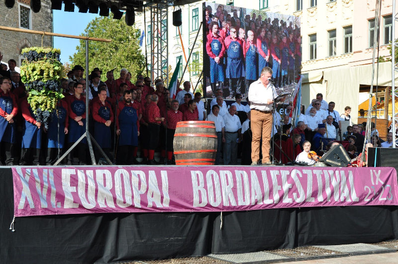 Winesong festival 2012, Pecs, Hungary